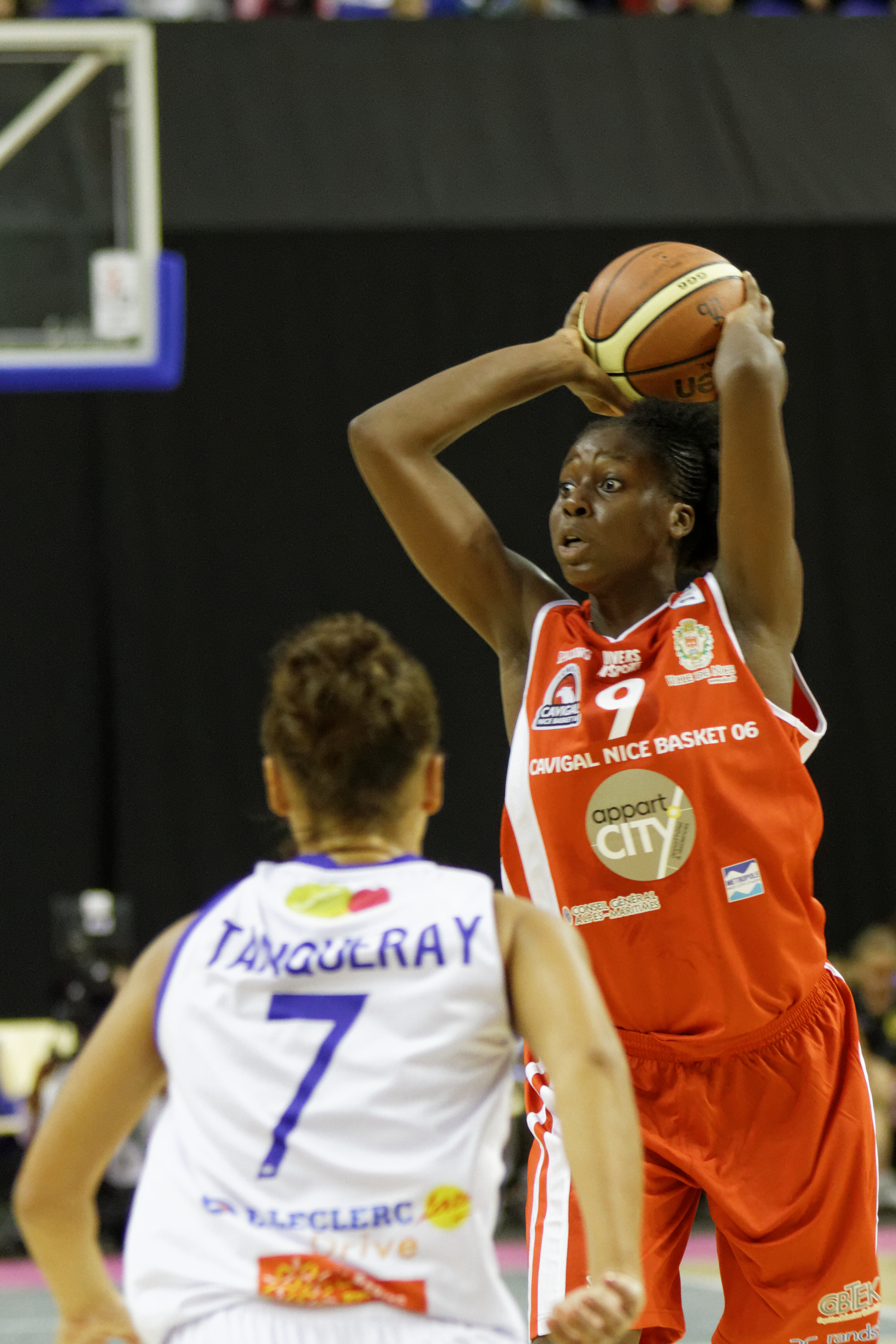 Open LFB, Lattes Montpellier-Nice, October 6th, 2013.